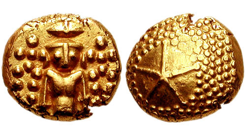 British India. Madras Presidency. 1740-1807. AV star pagoda (11mm, 3.33 gm). Figure of Vishnu Star in granulated field. KM 303; Pridmore 9; MNI 1794.